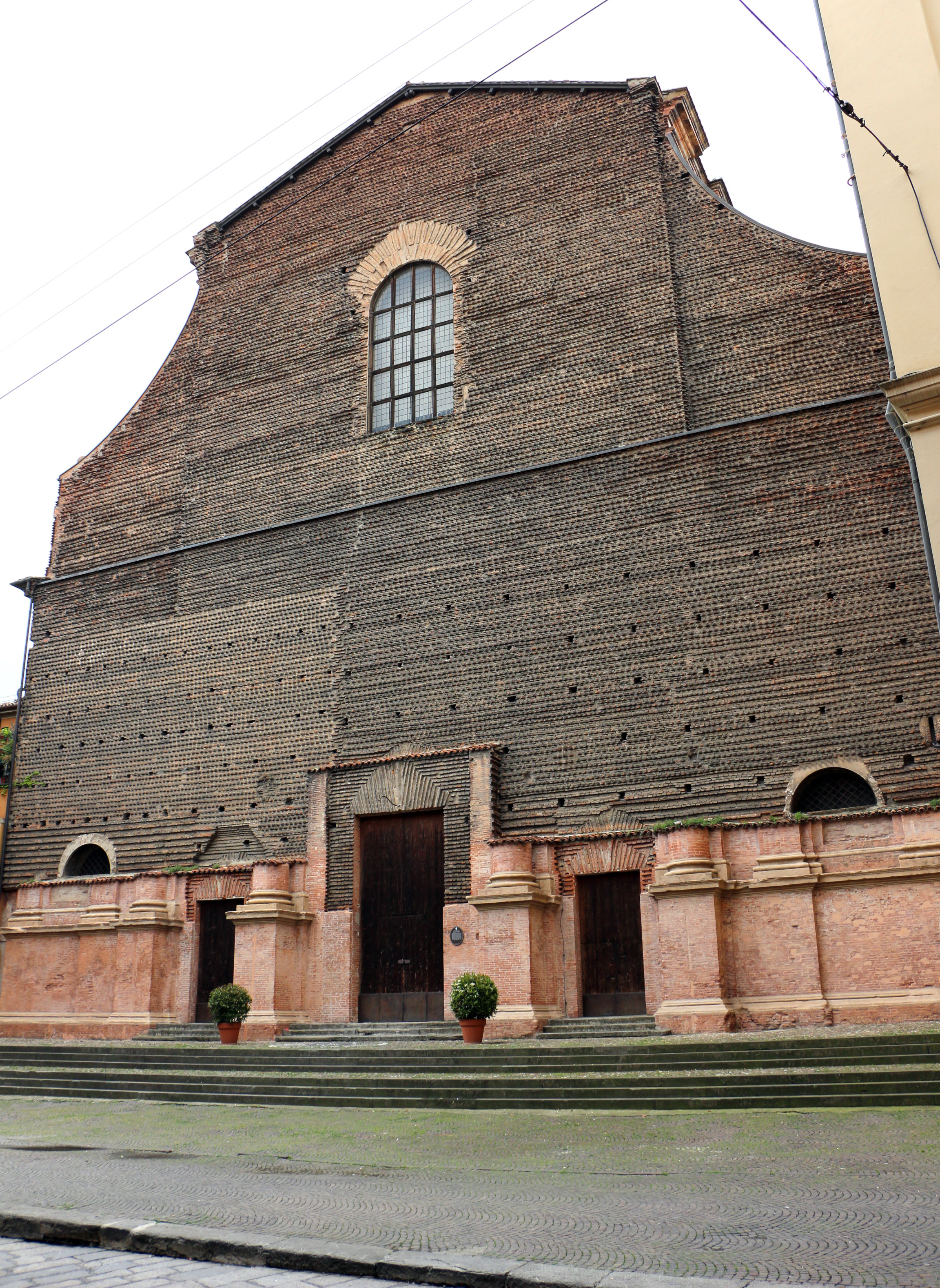 Bologna